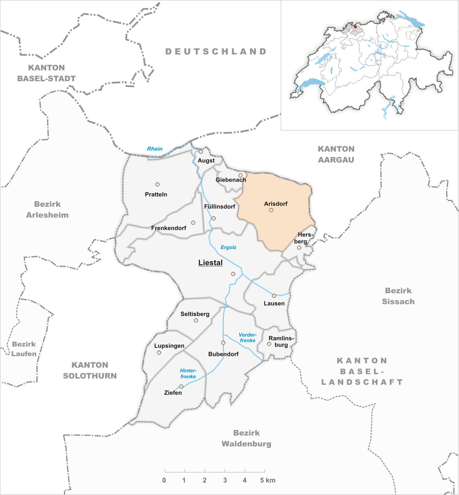 Municipality Arisdorf